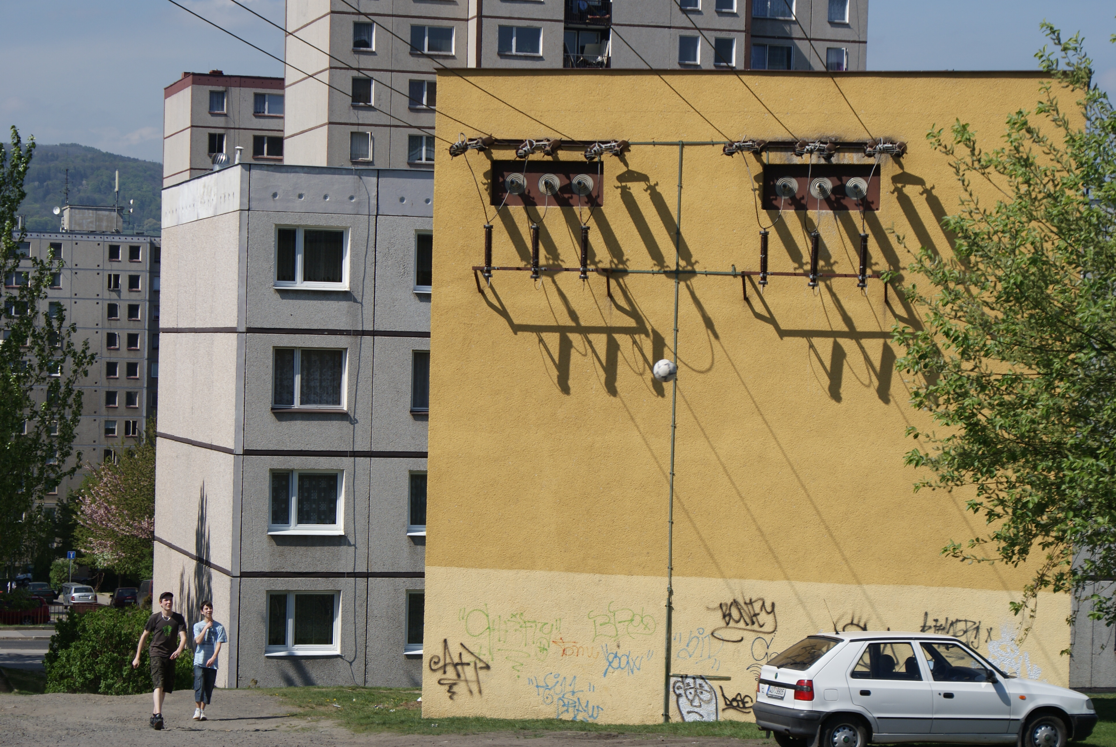 Boletice nad Labem, Czech Republic